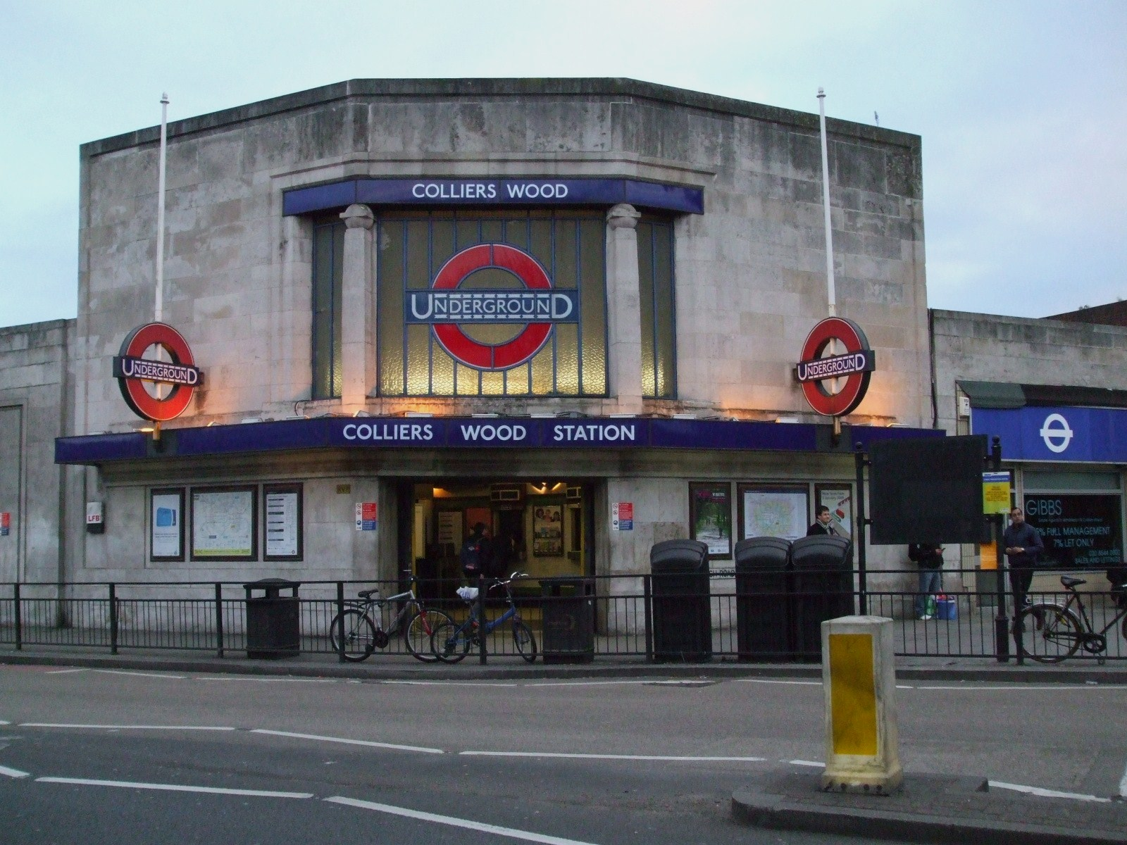 Colliers Wood tube station entrance